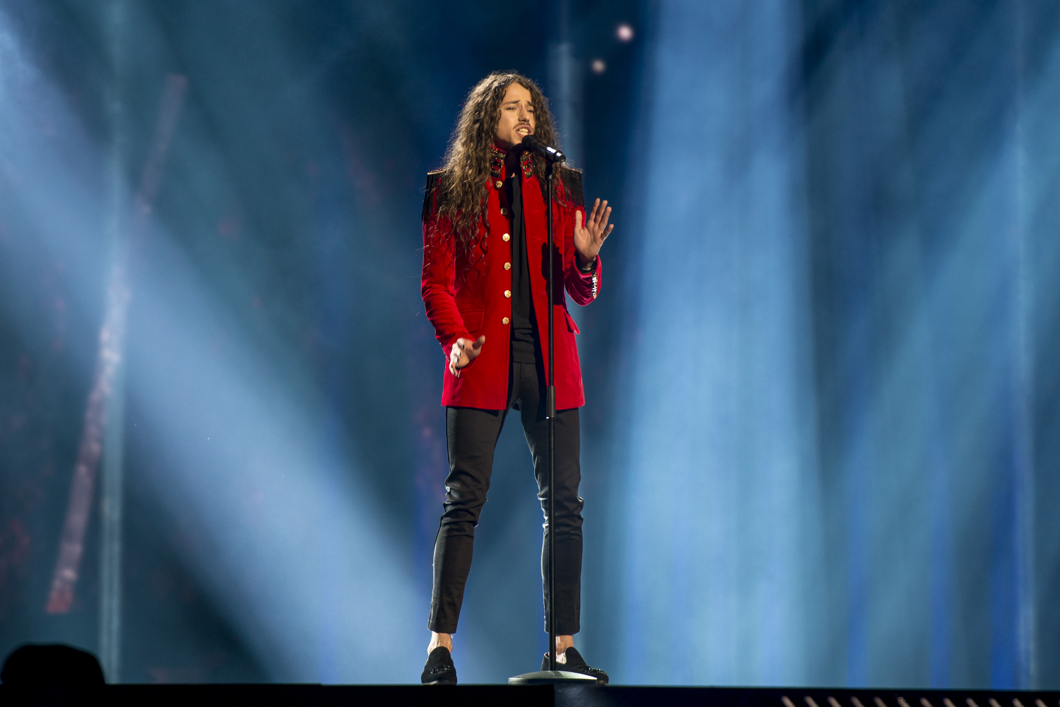 Michał Szpak representing Poland with the song "Color Of Your Life" during a rehearsal before the second semi final of the Eurovision Song Contest 2016 in Stockholm. (Help translate this text)